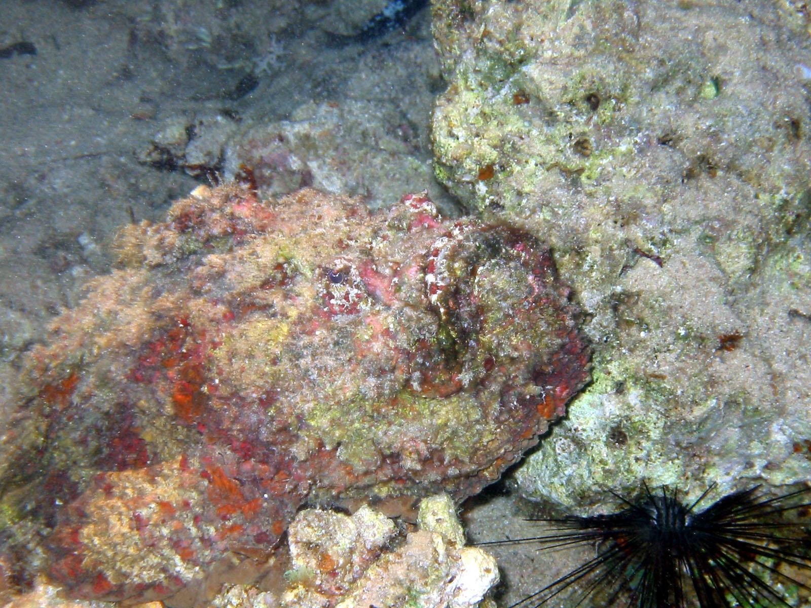 Synanceia nana Alan Slater, Dahab 2003 Category:Scorpaeniformes images